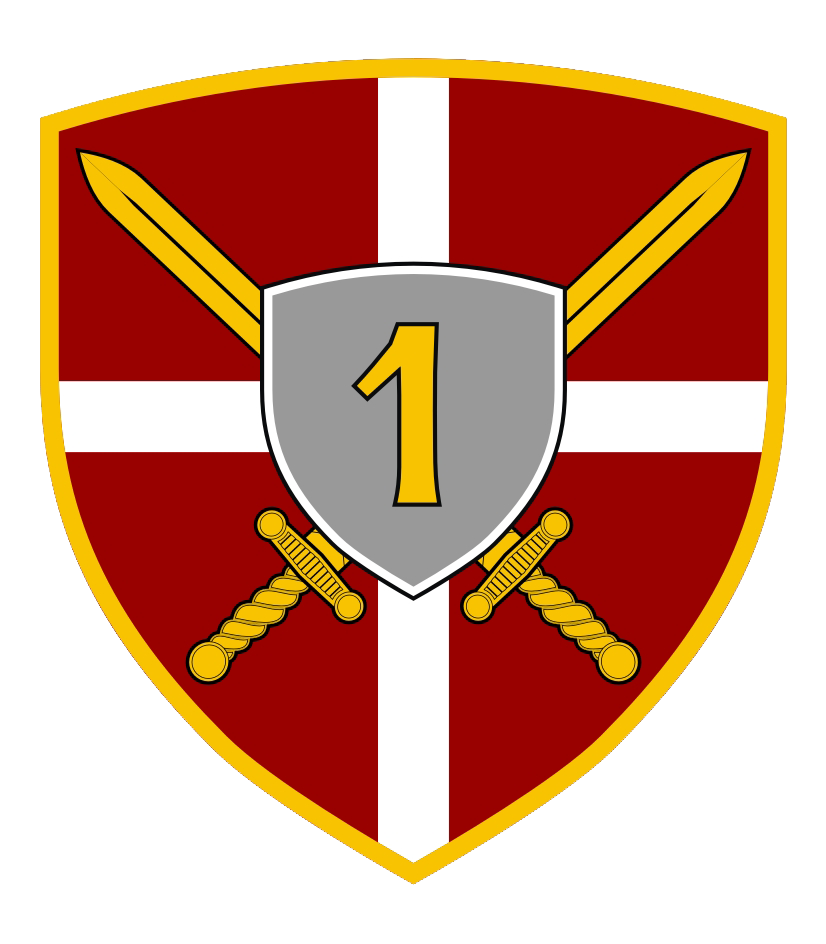 1st Brigade SLF patch